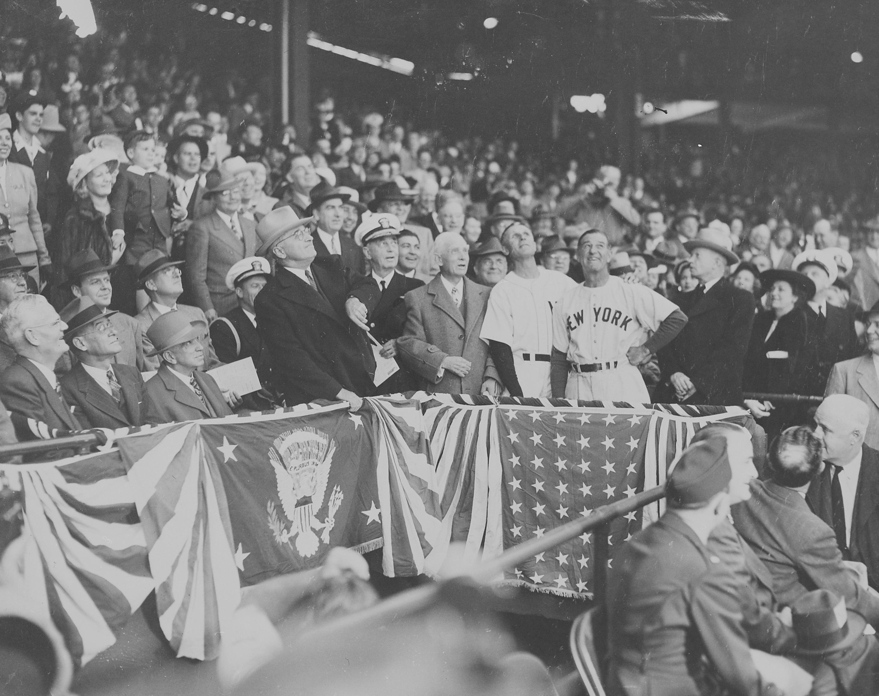 President Harry Truman throwing out the first ball of the 1947 baseball season at Washington's Griffith Stadium, as Fleet Admiral Willam Leahy, Washington owner Clark Griffith, Washington manager Ossie Bluege, and New York Yankees manager Bucky Harris look on